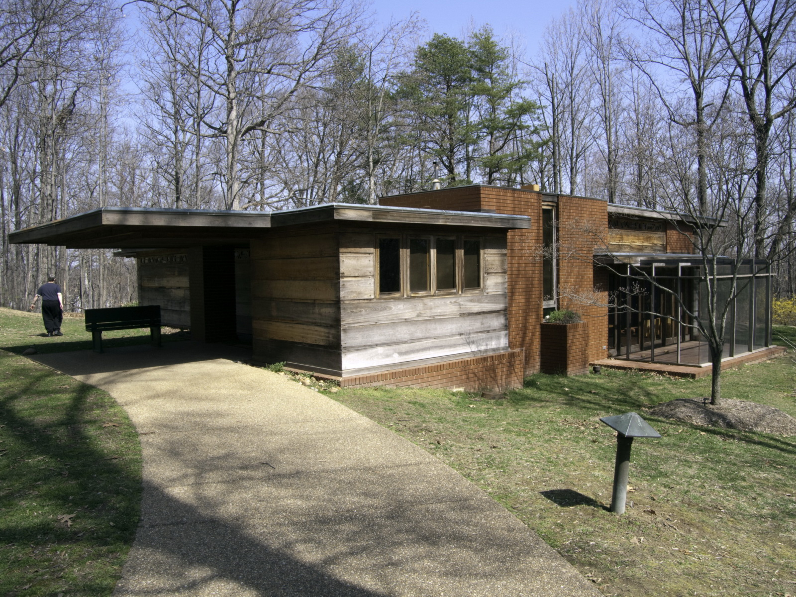 In the mid-1930’s, Frank Lloyd Wright began designing more modest homes for the common man. He called this design of home Usonian after one of the proposed names for the United States of America. These homes were to be simple, functional homes that met the needs of small families and could be built for about $5000.